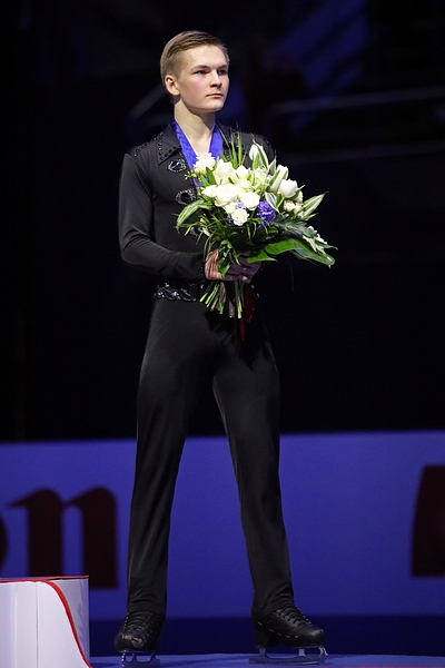 Photos – World Championships 2018 – Men (Medalists)